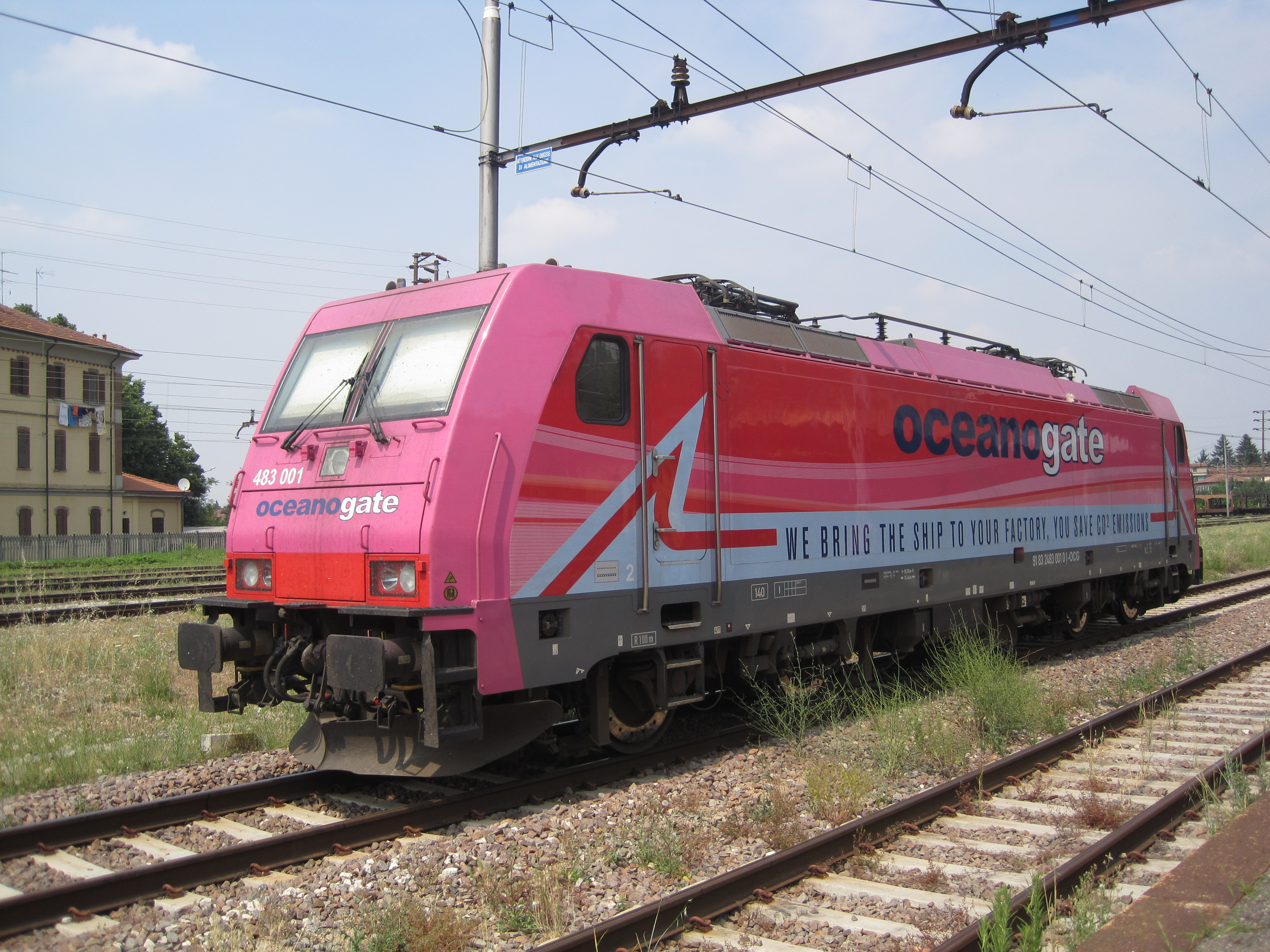 Freight locomotive Oceanogate 483 001